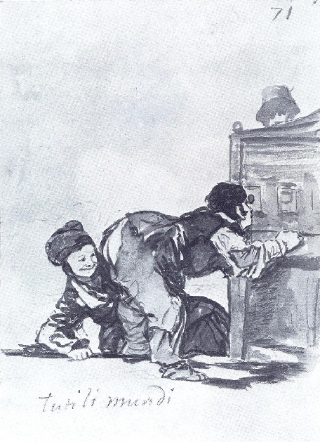 Ni bien ni mal: tutilimundi is a aquatint print created by Francisco Goya about 1820s.